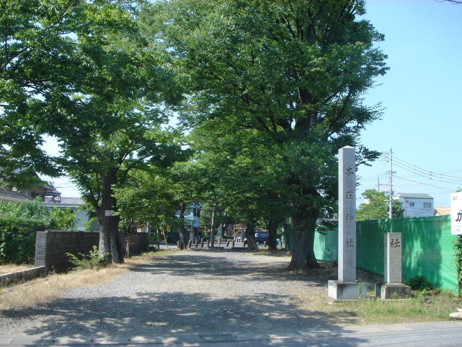 Honjo Jinja(Shrine)in Gifu City